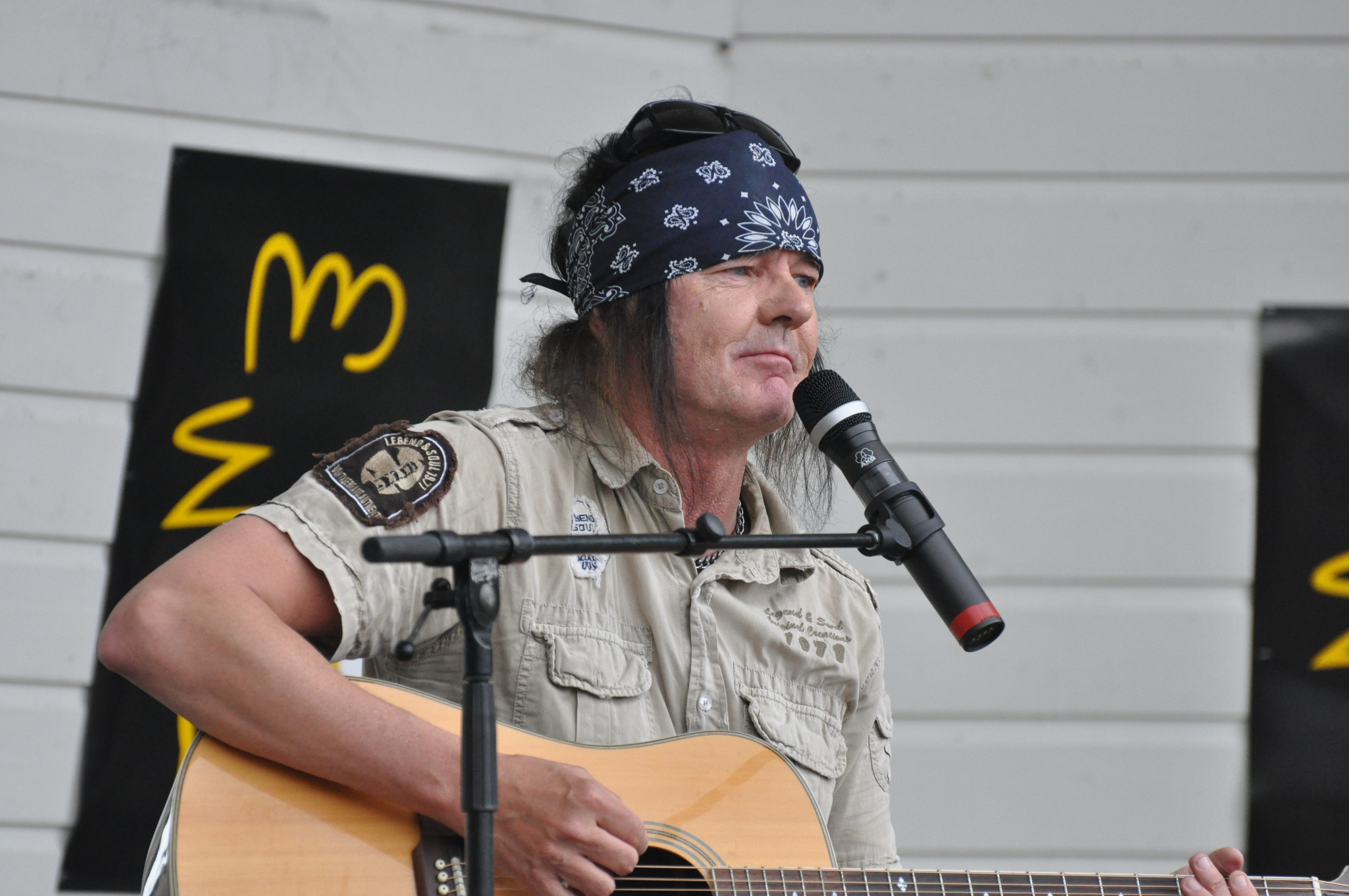 Finnish musician Kari Peitsamo performing in Laitila, 2010.